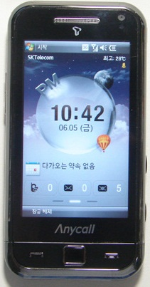 Samsung (T*Omnia, SCH-M490/495) 4GB or 16GB